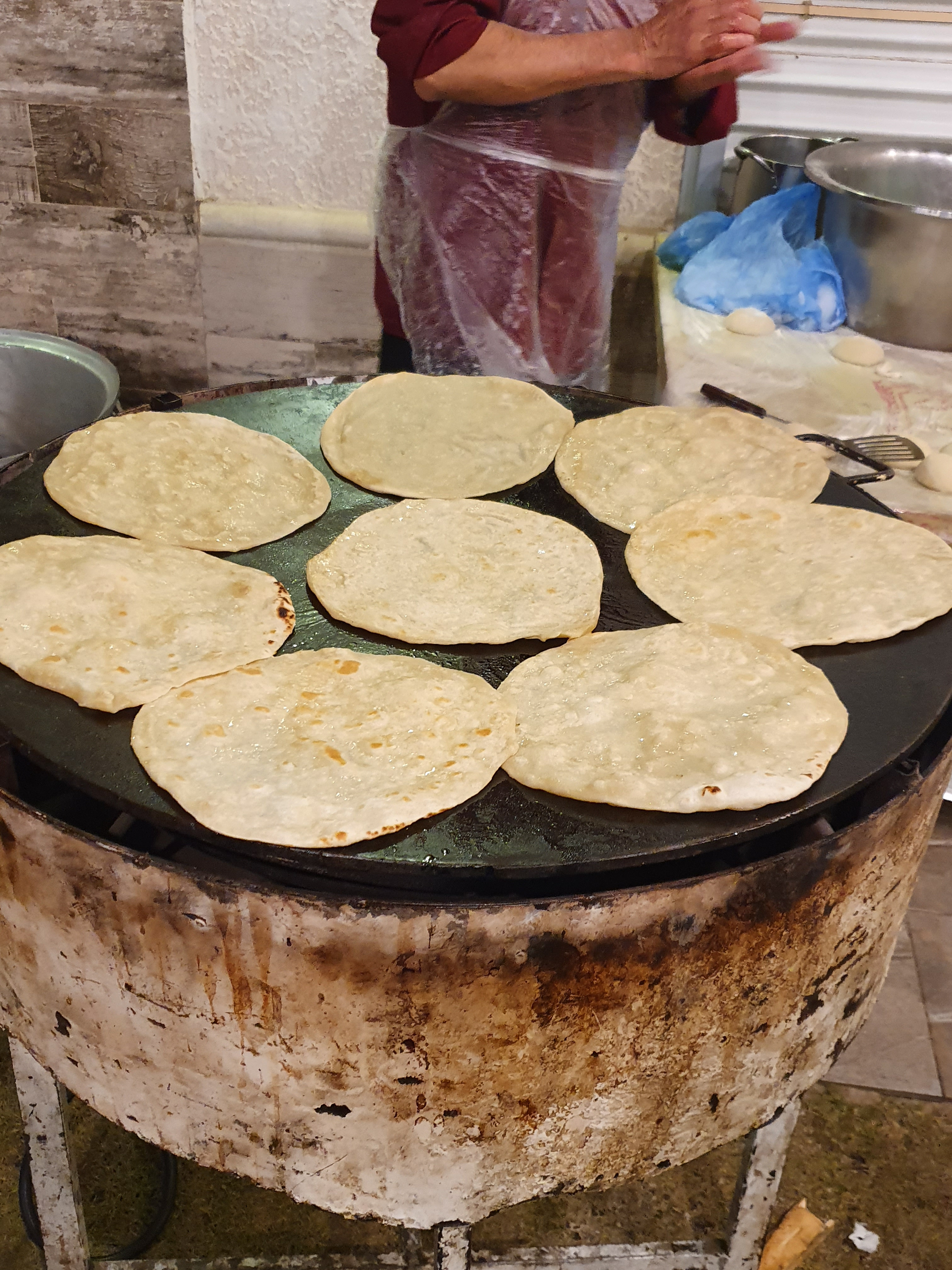 This picture shows the cook making Parathas